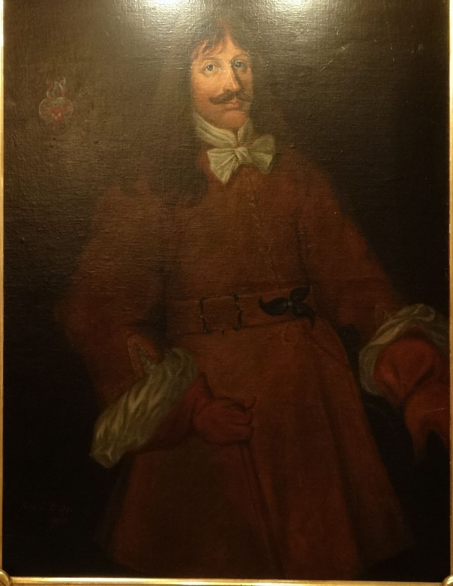 Colonel Olof Andersson Silfverlood, on a copy of a 17th century portrait in Västra Tunhem parish church, Sweden.